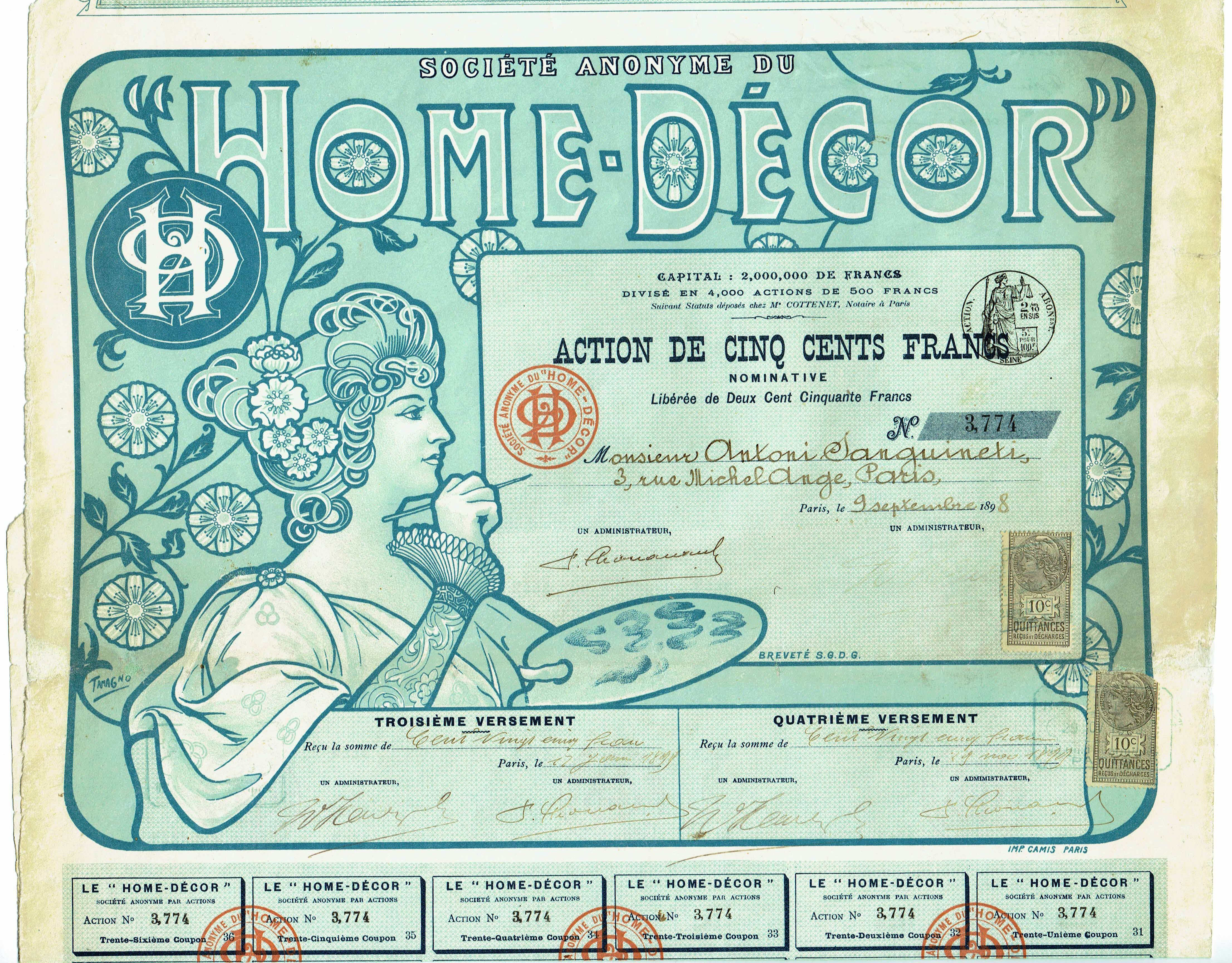 Share of the Société Anonyme du Home-Décor, issued 9. September 1898